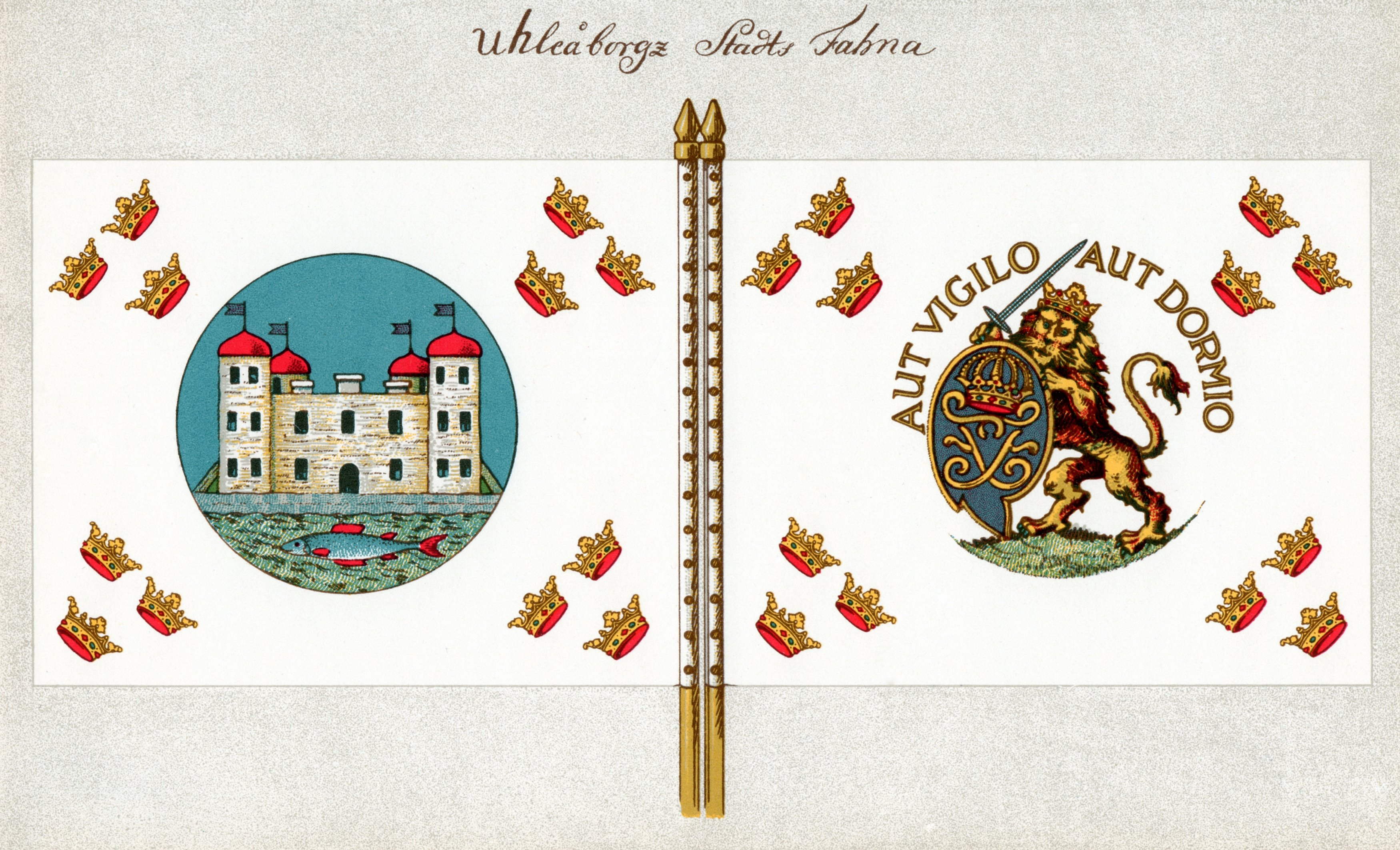 Military flag of Oulu city that replaced the flag lost in the Great Northern War in 1714.